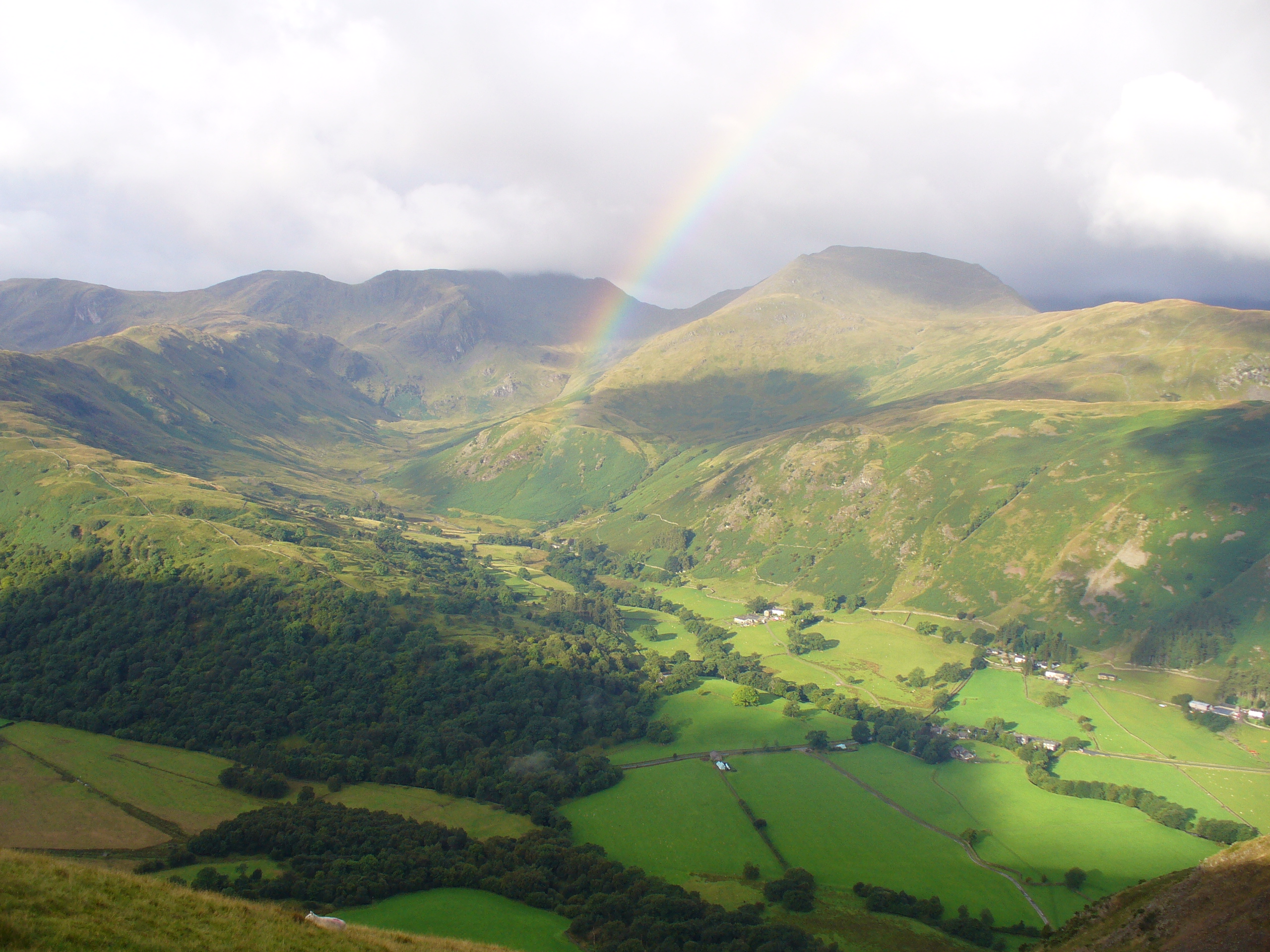 Rainbow over Patterdale in the English Lake District.